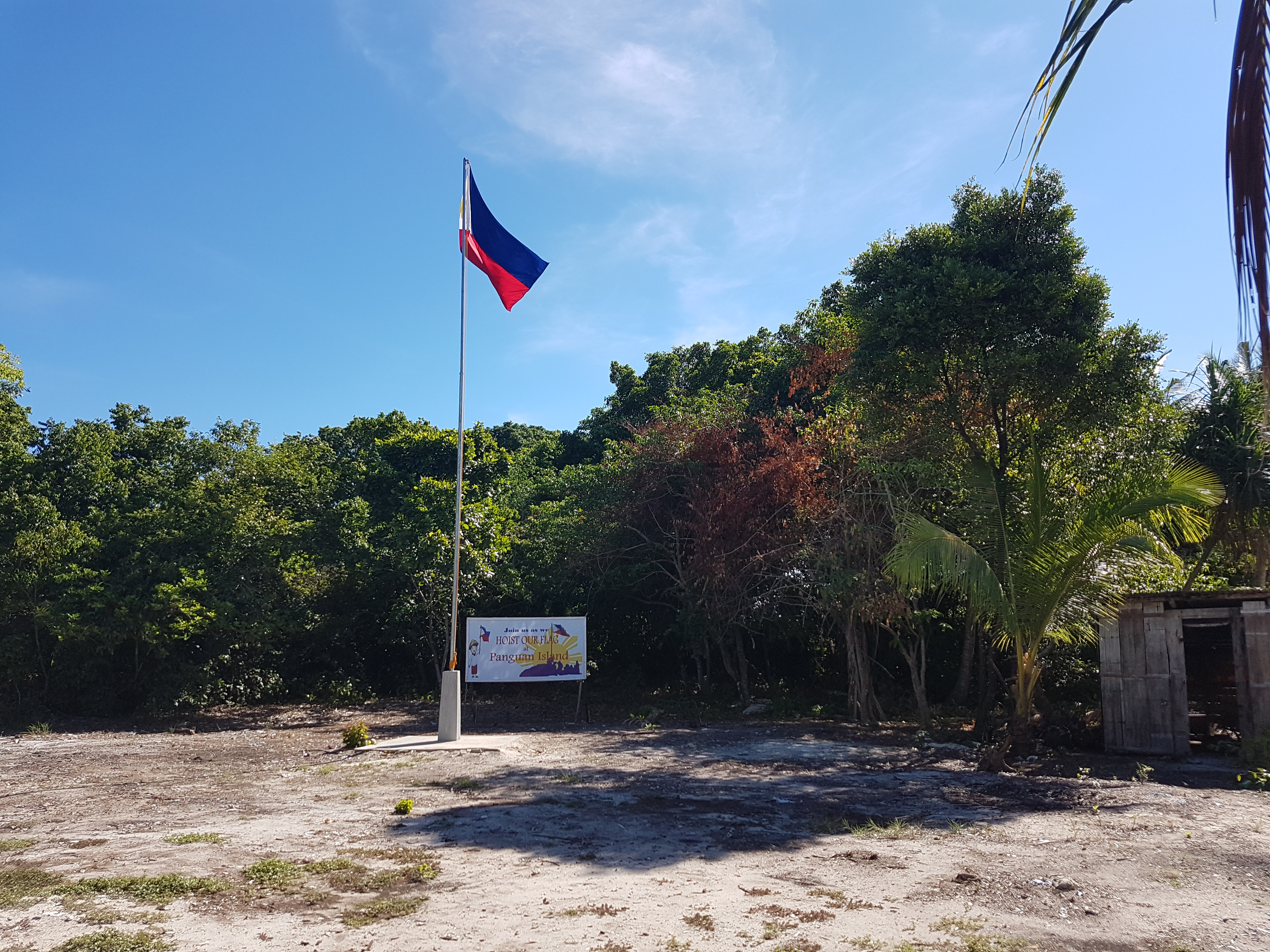 The southernmost flagpole in the Philippines at Panguan Island, Tawi-Tawi. Put up on April 29, 2017 by the 10th Philippine Marines Battalion Landing Team after it was secured from a decade of occupation by the Abu Sayyaf terror group. Photo was captured during the mapping, reconnaissance, deployment-extraction mission of the Marines together with Schadow1 Expeditions.